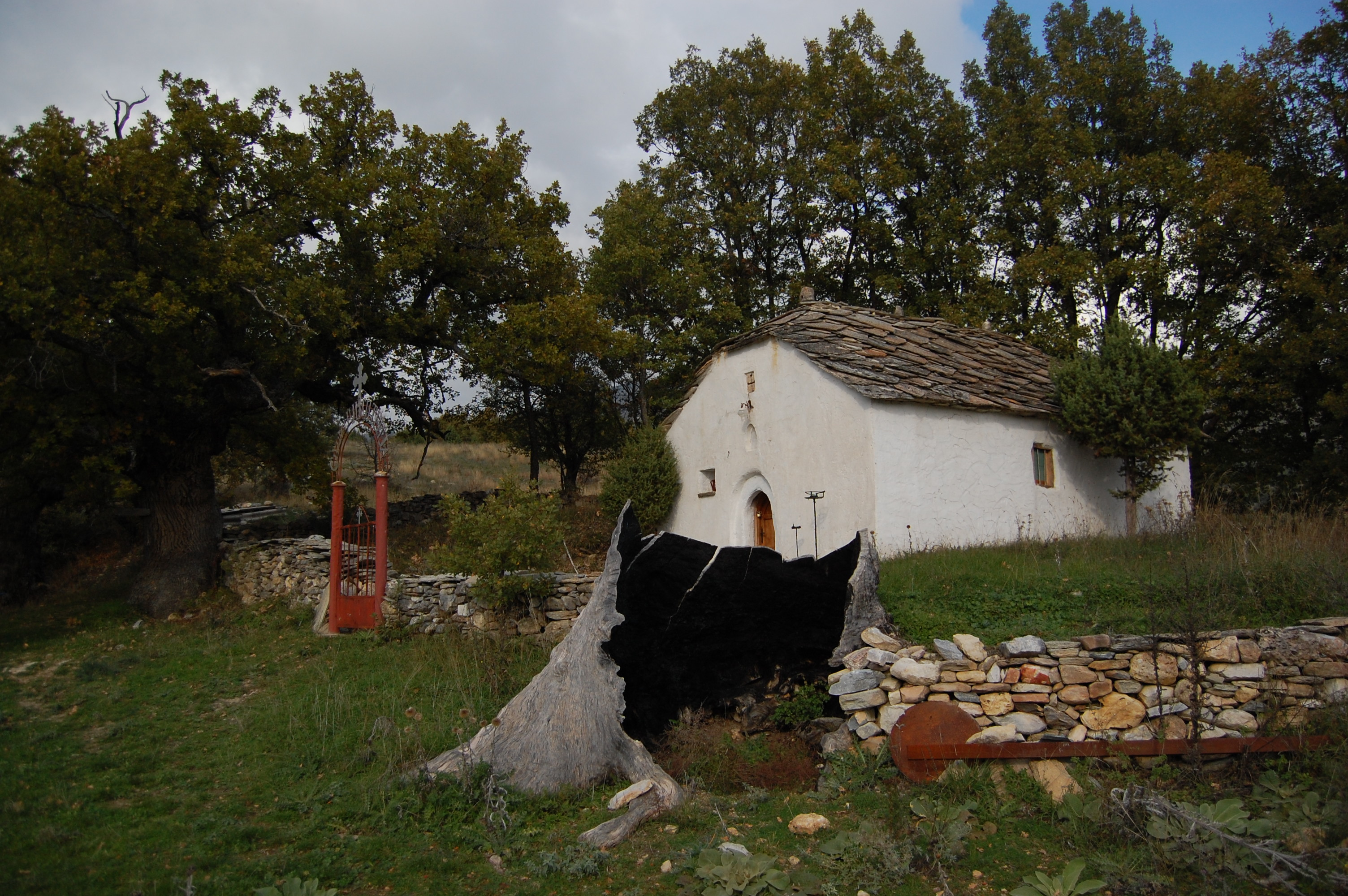 Monastery of St. Demetrius in the village of Veprčani in Mariovo region, Macedonia